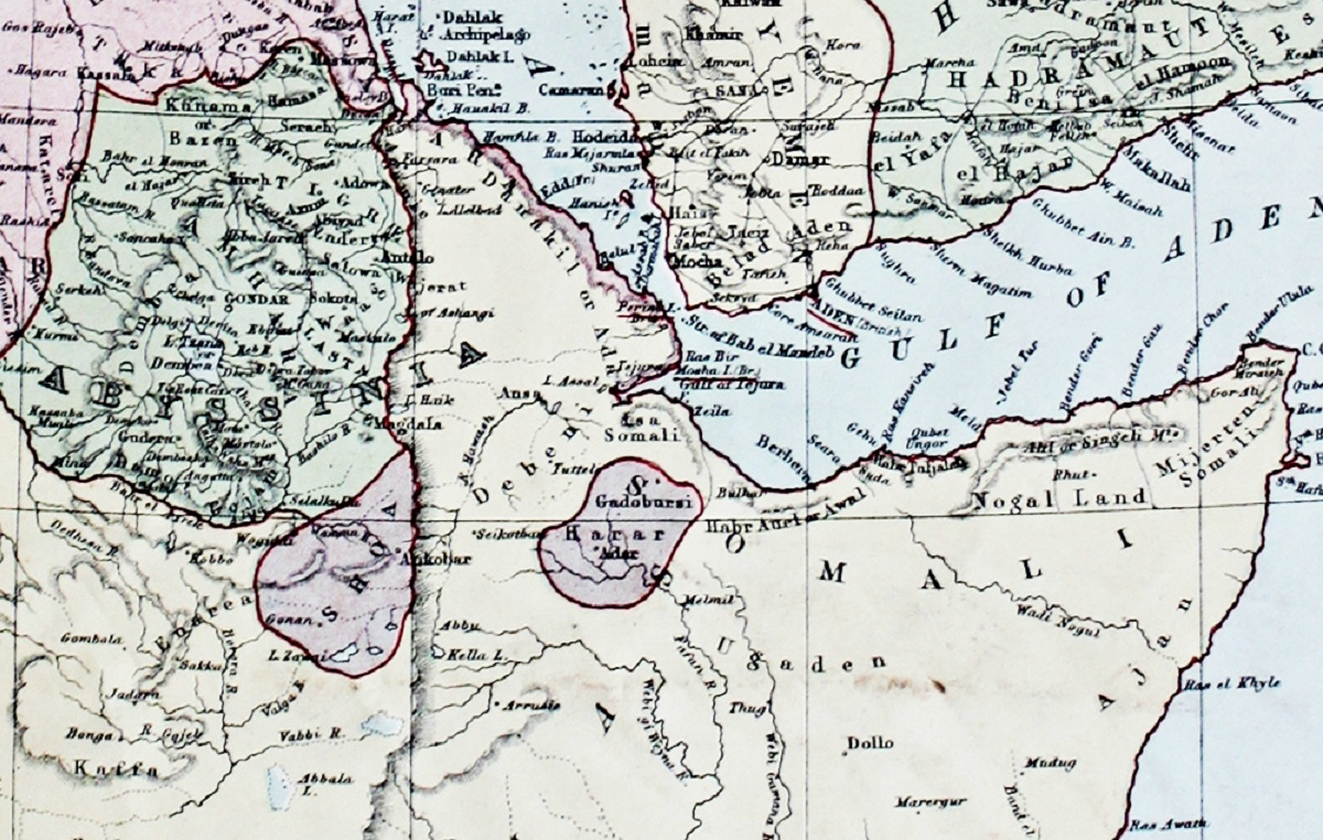 The Empire of Abyssinia (Ethiopia), the Kingdom of Shoa (Shewa) and the Emirate of Harar c. 1873, cropped from a John Bartholomew map titled Turkey in Asia, Persia, Arabia, Egypt and Nile Countries (1873).